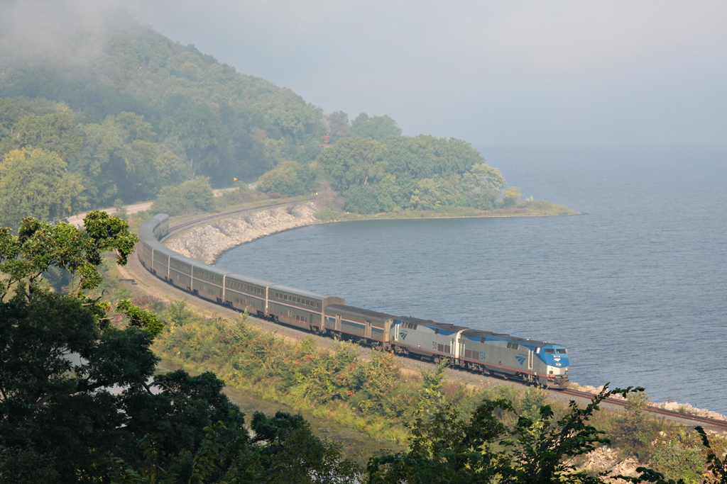 The Builder cuts thru the fog along the Mississipi at Maple Springs, Minn. There are a lot of great shots along this part of the river.